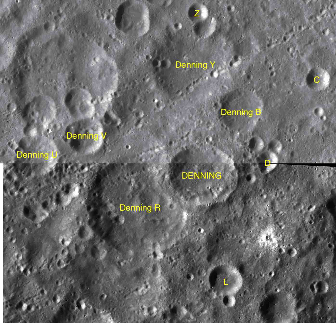 Parts of the charts LAC-84 , LAC-102 used for the presentation